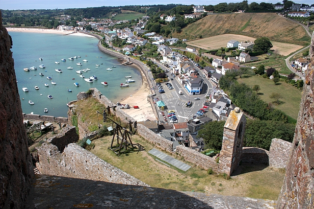 Gorey from the castle. Looking down from atop the castle to the little town along the bay. Various recreations of ancient defences are on display - much to the delight of visiting children.